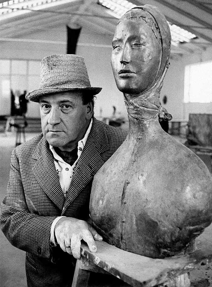 Italian sculptor Giacomo Manzù (Giacomo Manzoni) working in his atelier built in the Campo del Fico estate, also known as Colle Manzù. Ardea, 13th May 1966.